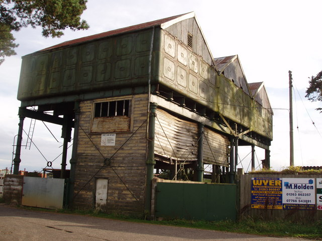 Former water tower on site of Melton Constable Station, Norfolk.